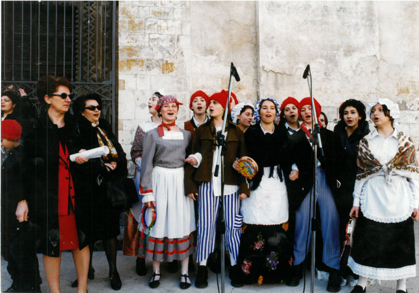 Celebrations for the Bicentenary (1999) of the Altamuran Revolution (1799) - Rehearsal in piazza Duomo (Altamura) performed by the students of Altamura high school Liceo scientifico Federico II di Svevia